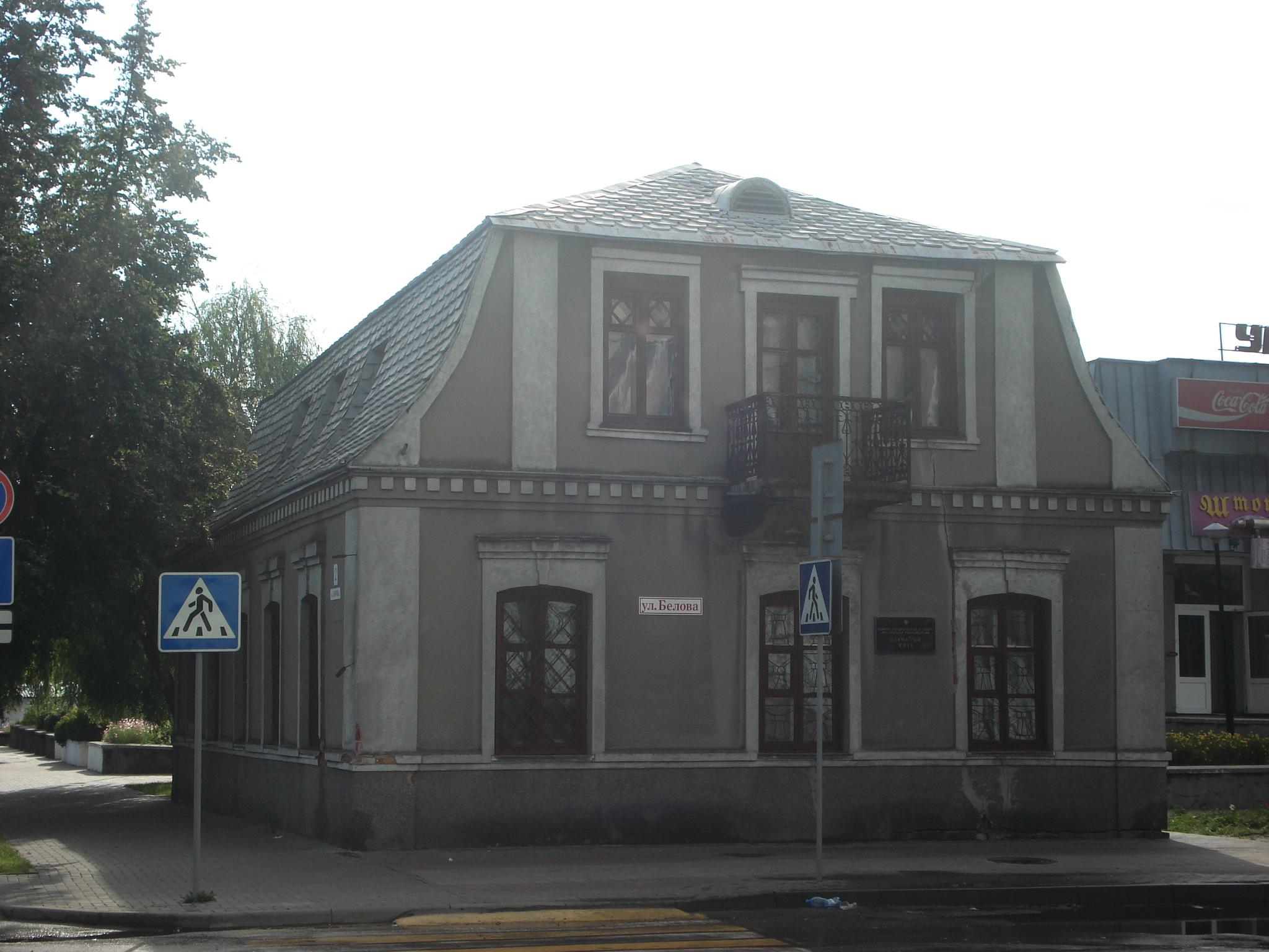 Chess Club, Pinsk